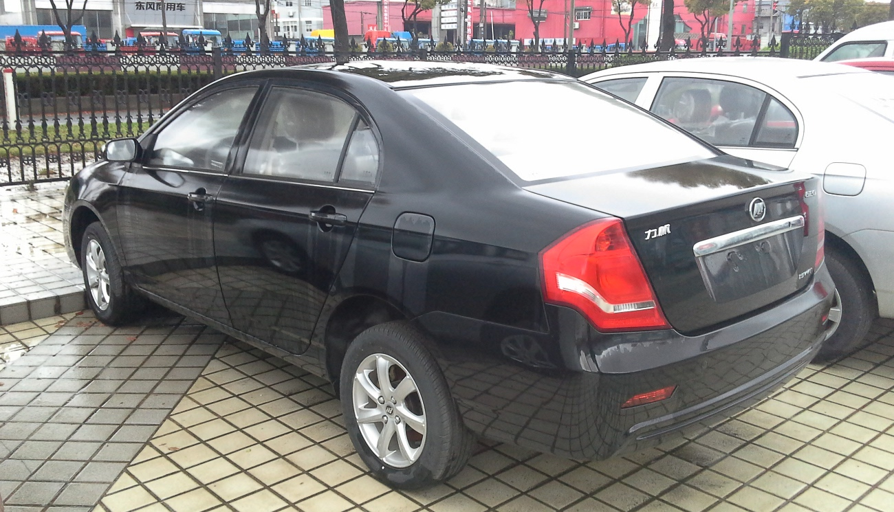 Lifan 630 photographed in Shanghai, China.